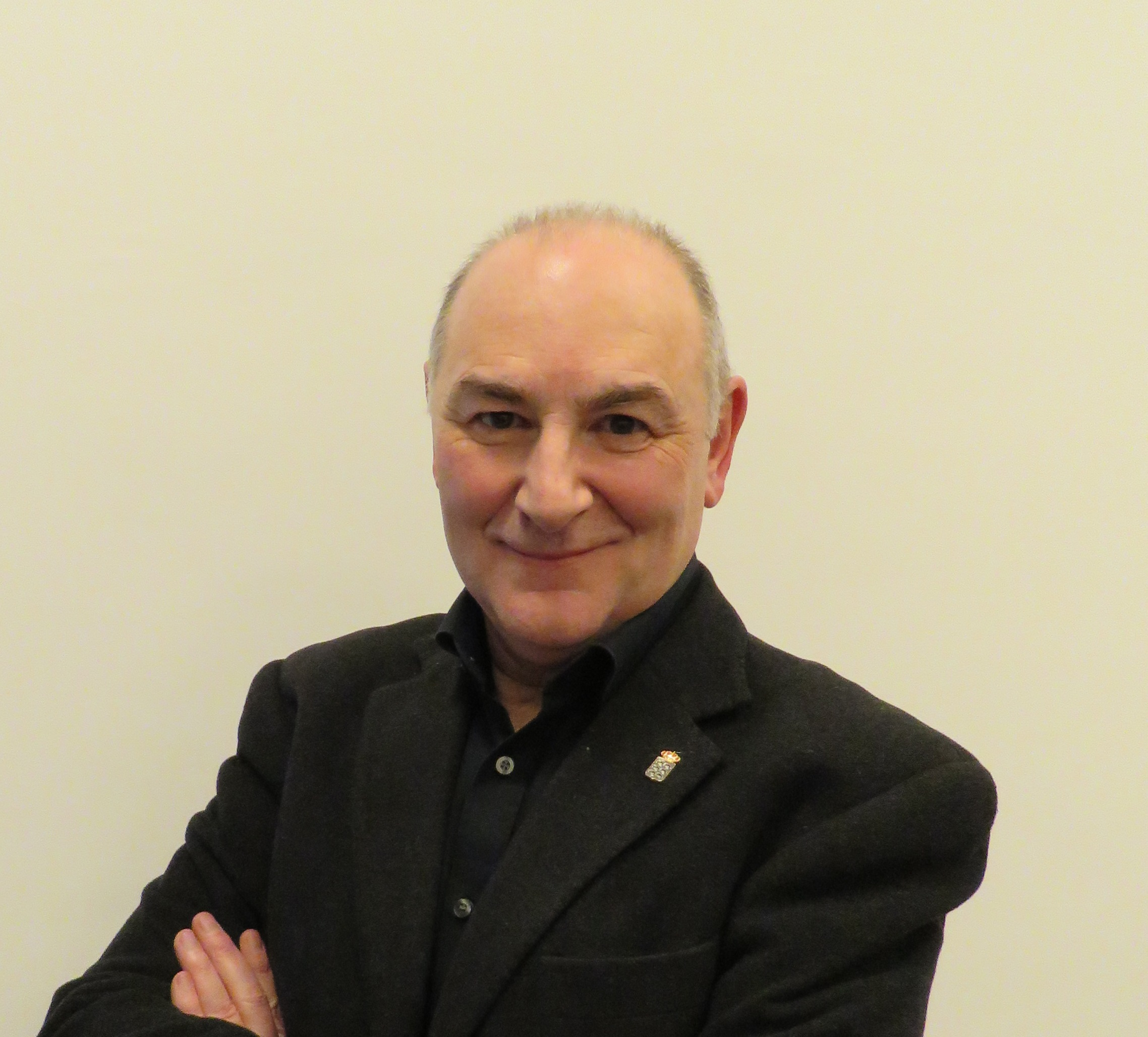 Carlos Martinez (mime actor), attending the First world mime conference in Belgrade 2018.